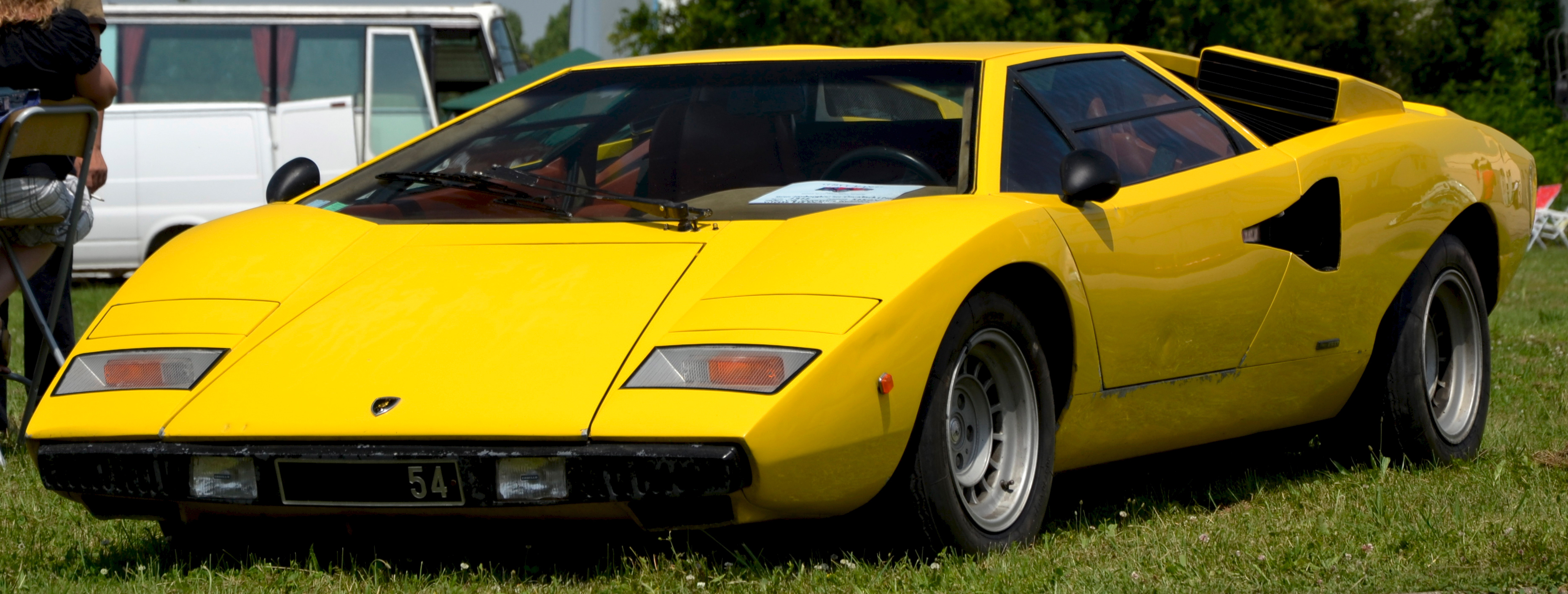 Lamborghini Countach